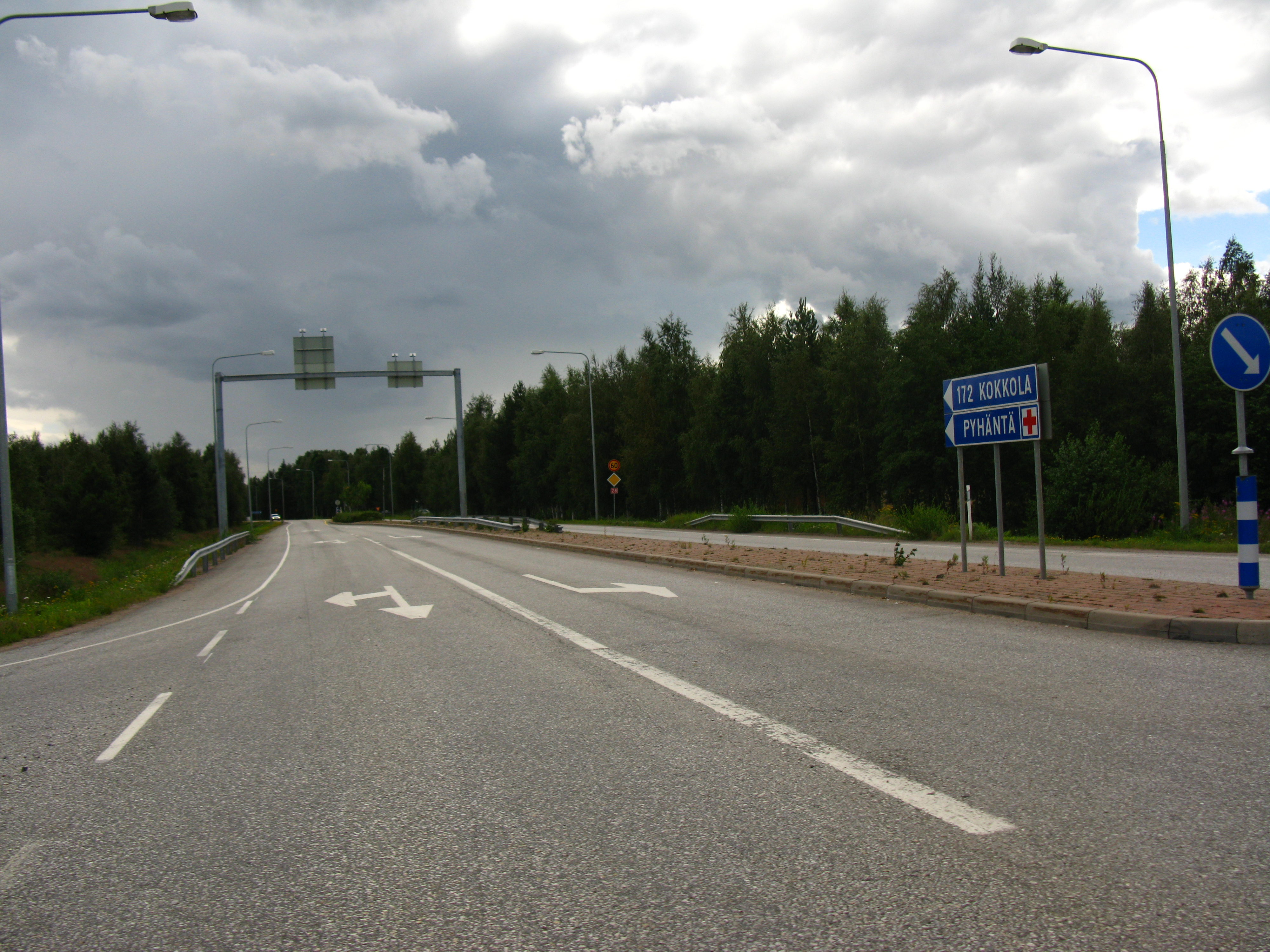 The main road 28 at the crossing of the main road 88 in Pyhäntä, Finland, seen towards Kokkola.